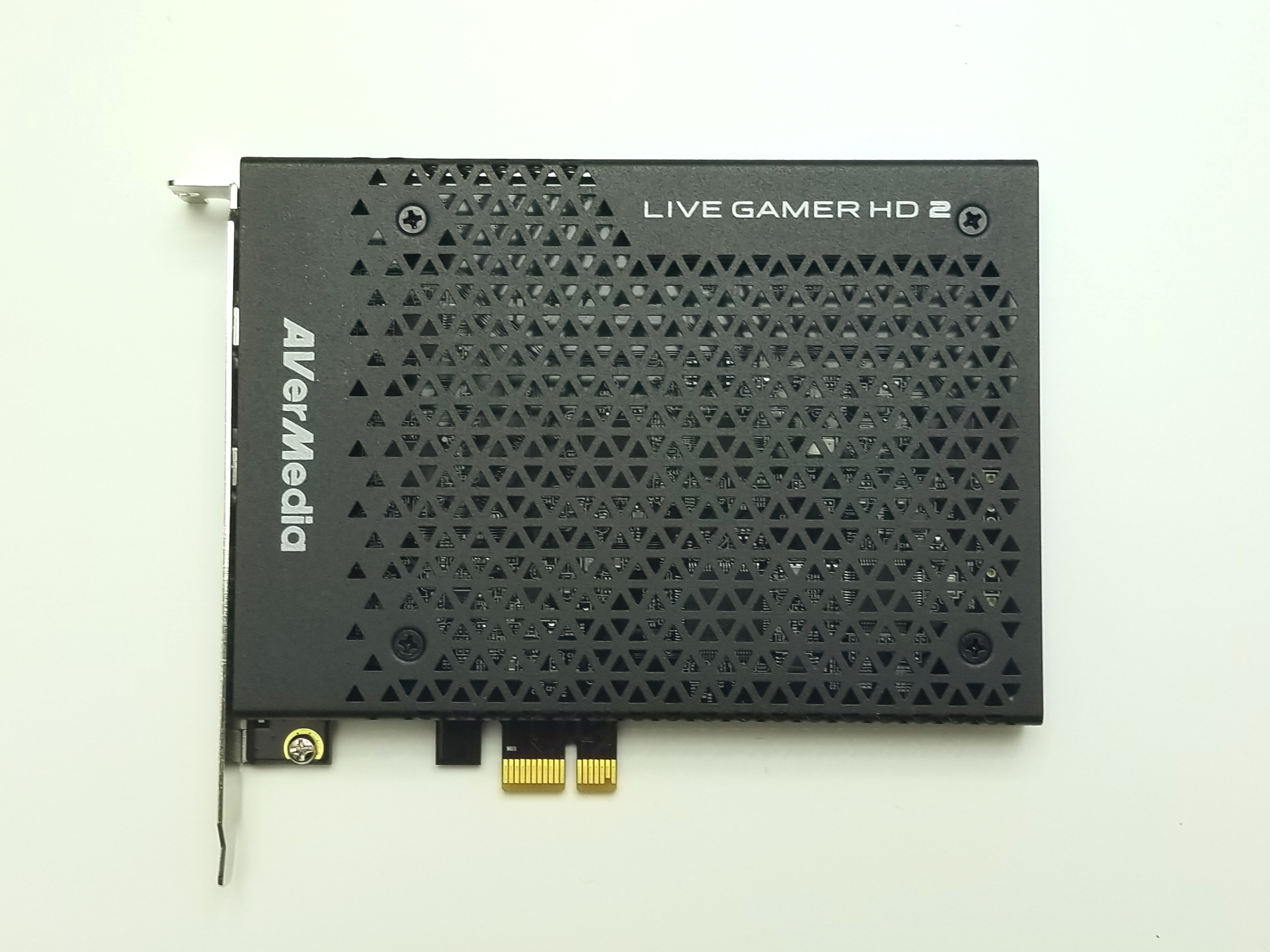 AVerMedia Live Gamer HD 2.